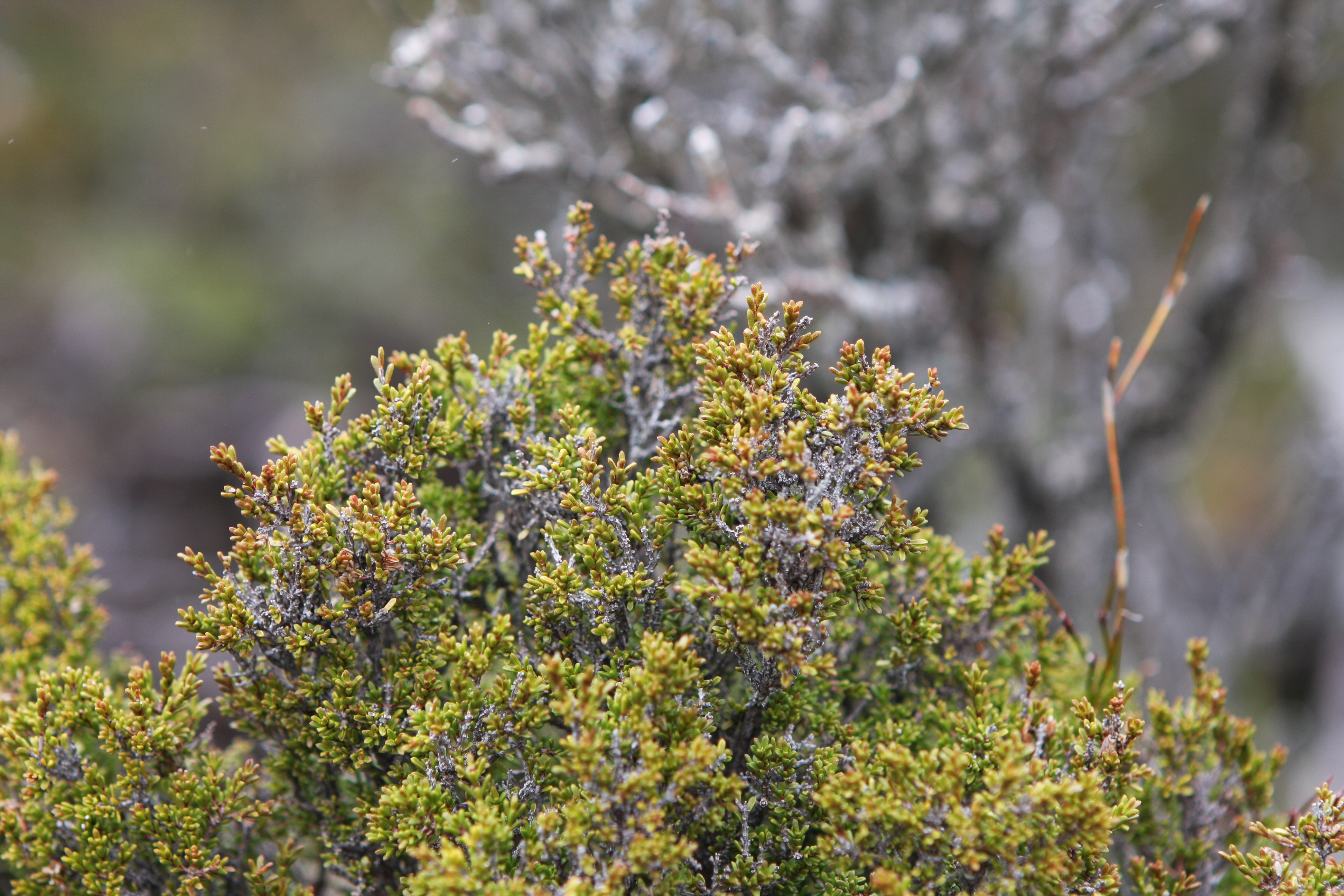 Boronia citriodora, family Rutaceae, growing in a subalpine sclerophyll woodland Australia oz2009 012